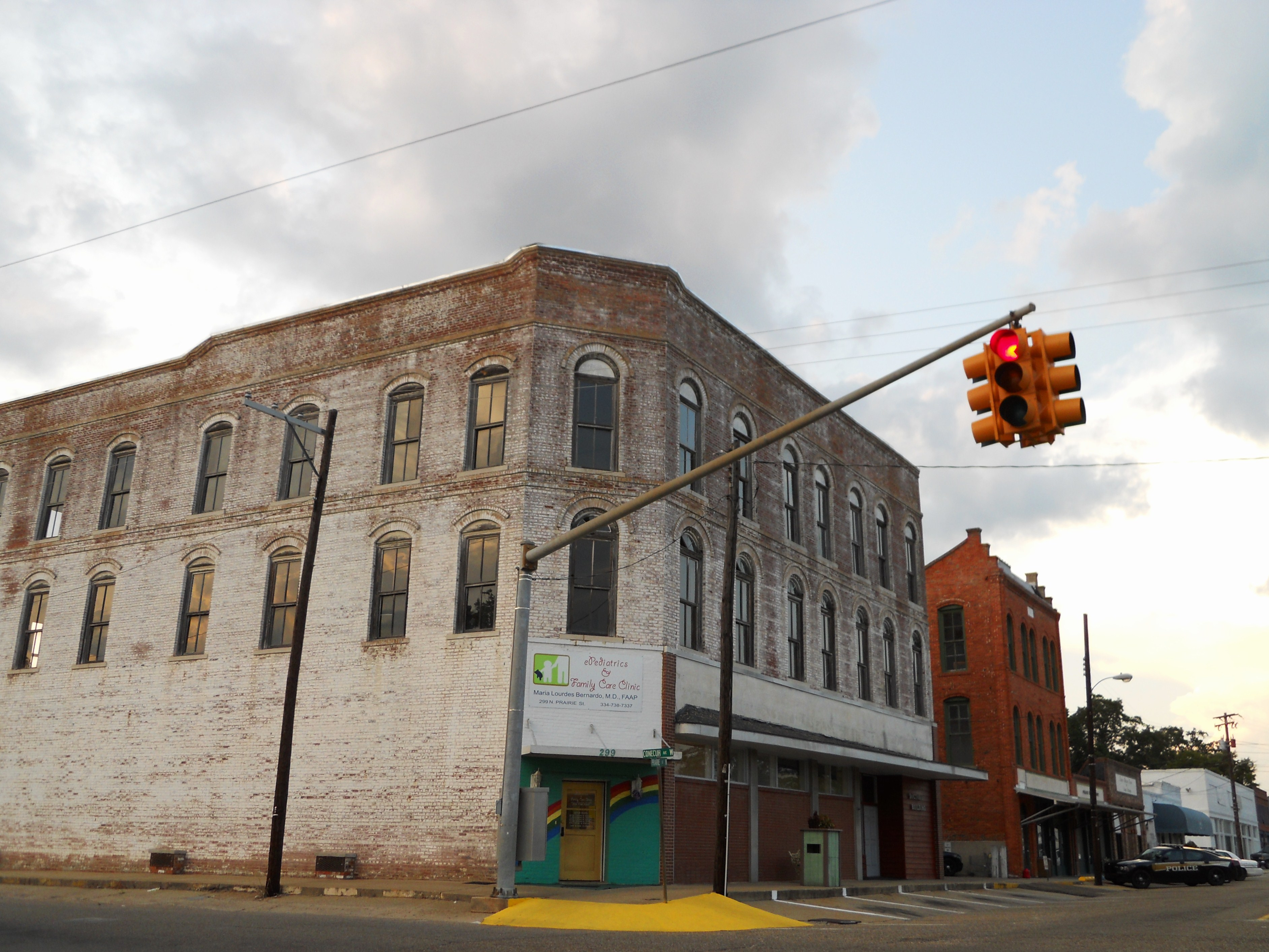 This is a photograph of Union Springs, Alabama.